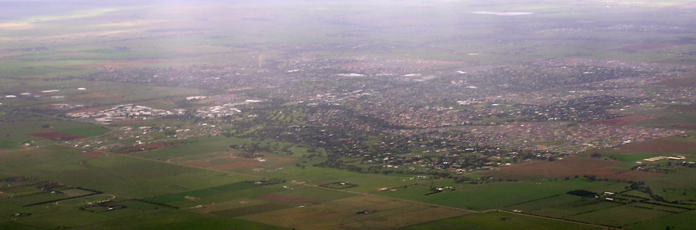 Aerial view of Melton from north east